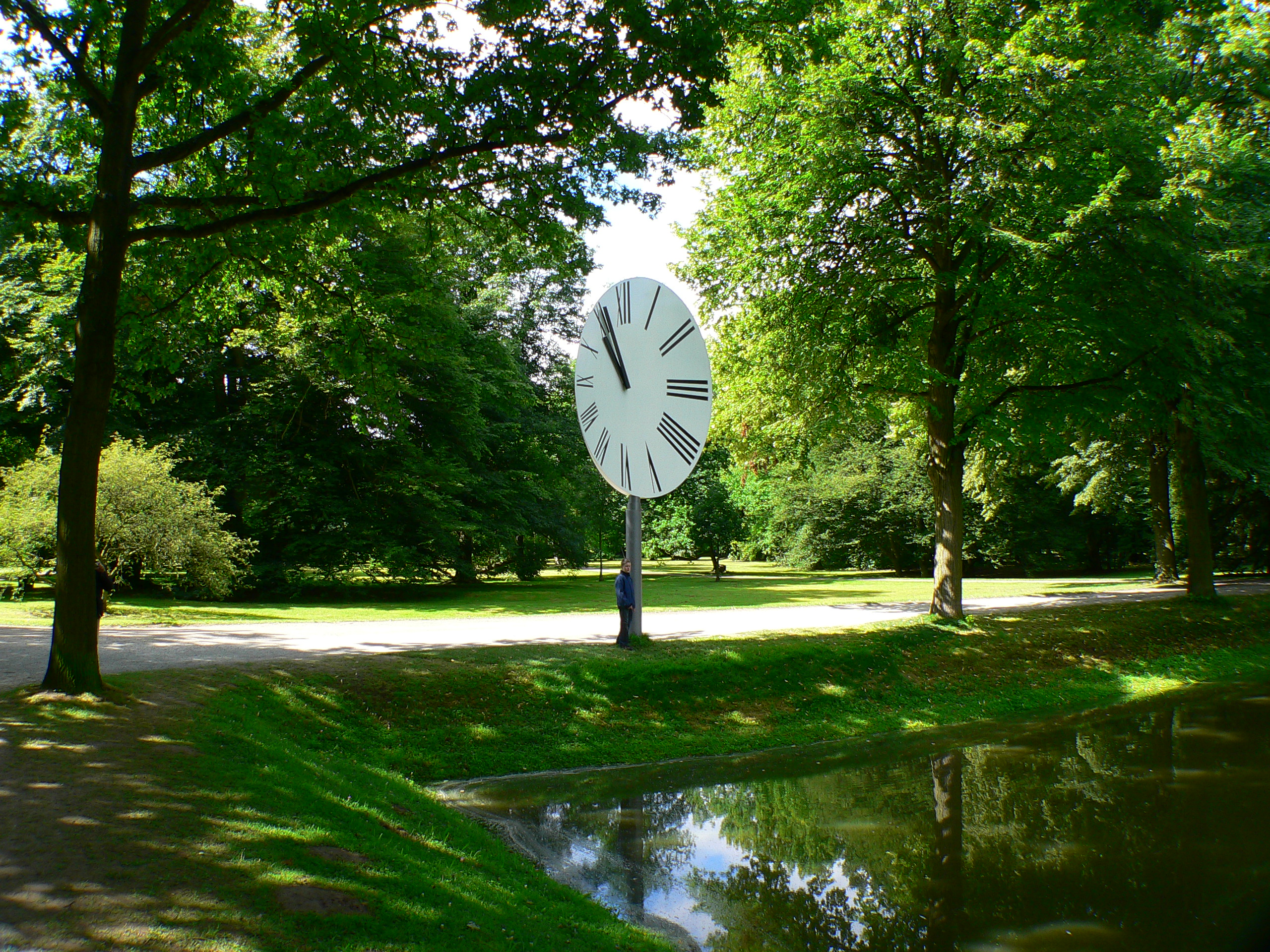 "Clocked Perspective" von Anri Sala im Auepark, dOKUMENTA (13), Kassel